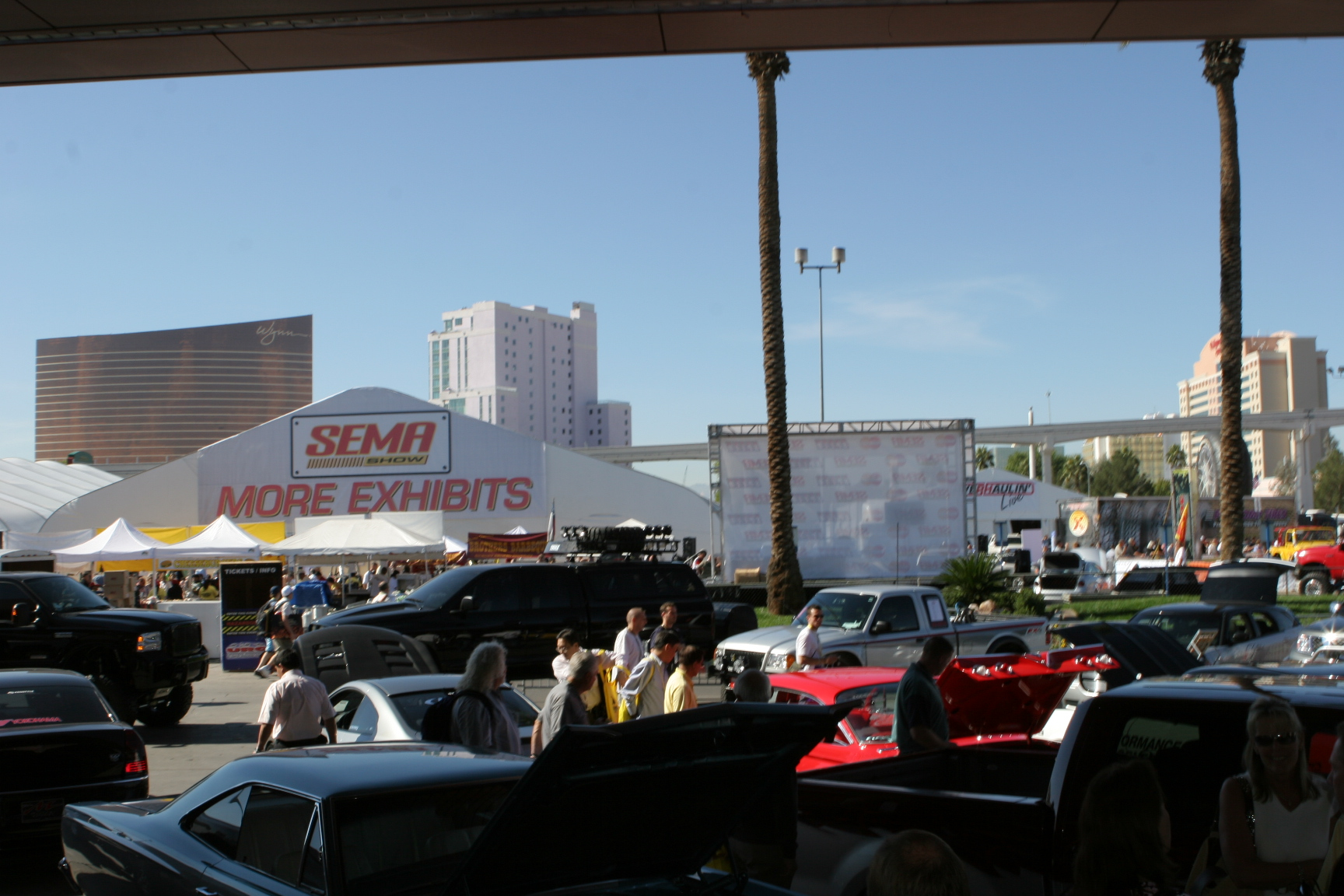 SEMA Show 2005, Las Vegas Convention Center